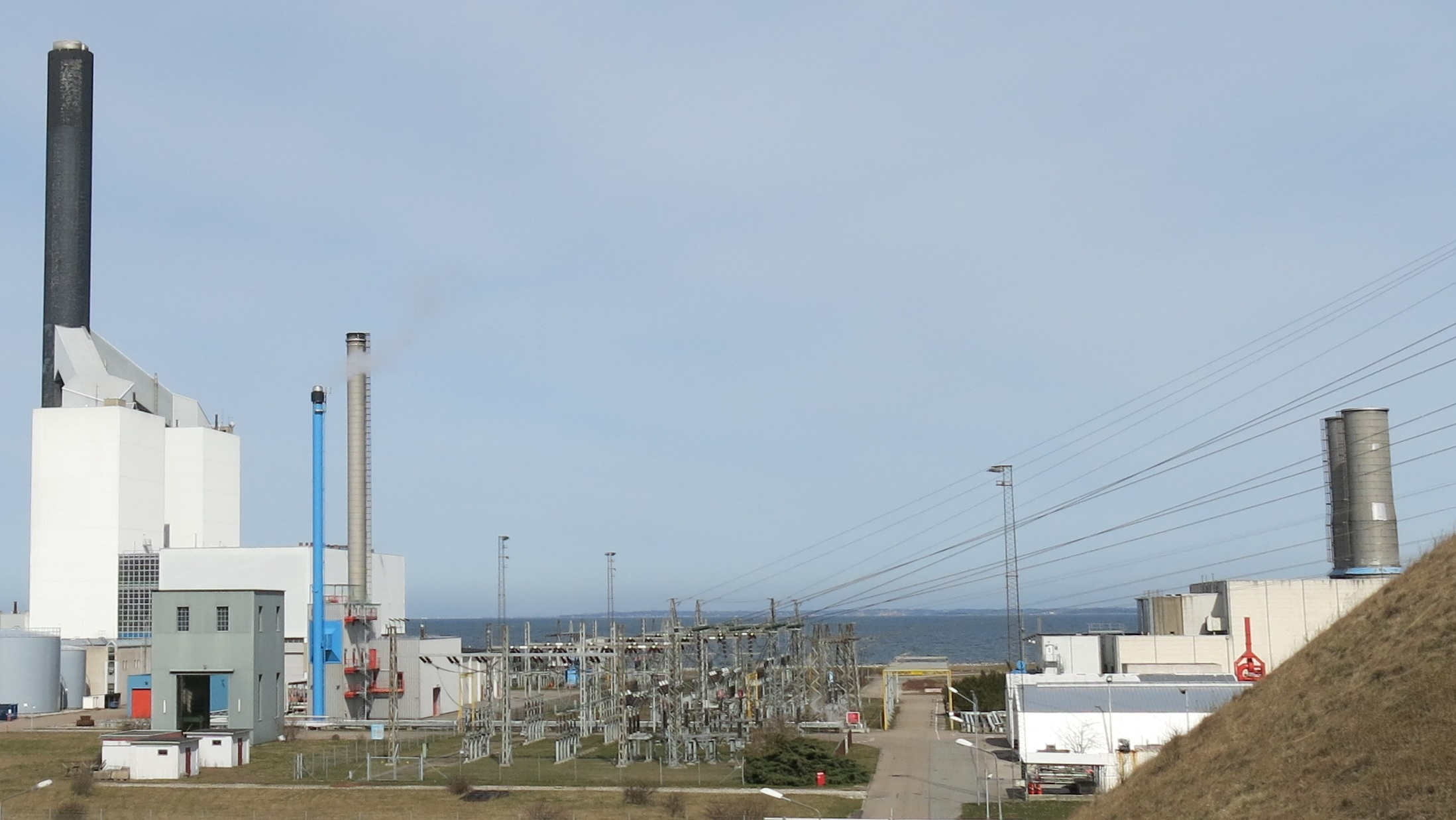 Kyndbyværket, Denmark